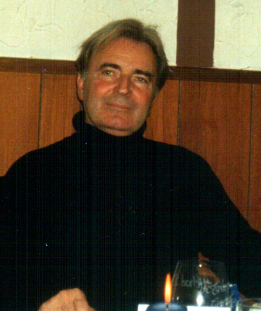 German actor and dubing actor Michael Tietz